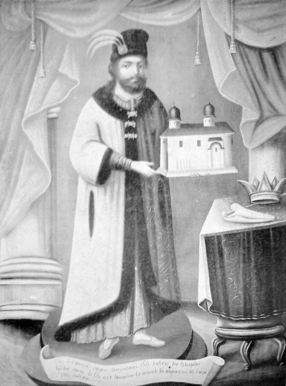 Miron Barnovschi in his church from Iaşi